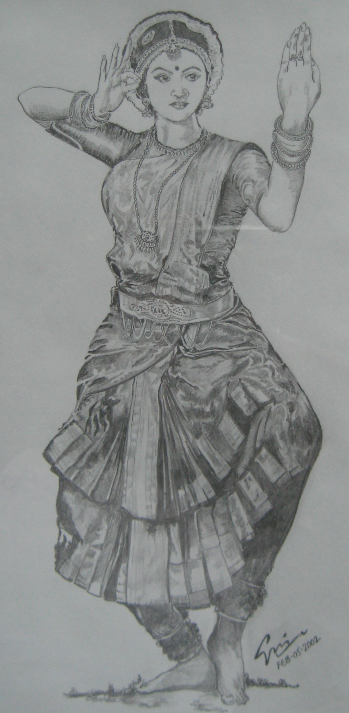 Bhabupriya - A gifted Indian classic dancer and Telugu actress. This drawing is based on her photograph in the Telugu movie - Swarnakamalam.